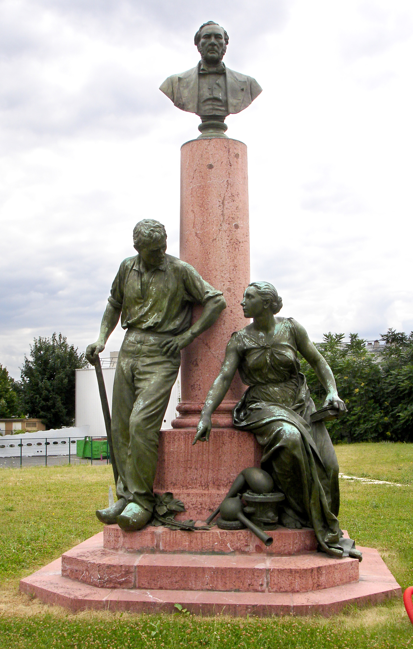 Monument to Jean-Baptiste Boussingault by Jules Dalou (1895), garden of CNAM, la Plaine Saint-Denis, formerly in the courtyard of the Conservatoire National des Arts et Métiers in Paris (National Conservatory of Arts and Crafts). Pink marble and bronze daubed with green paint. Height : about 4,50 meters. This monument symbolyzes Science serving Agriculture. The bronze cartouche on which was inscribed the name of the scientist, on the top of the column, is missing.